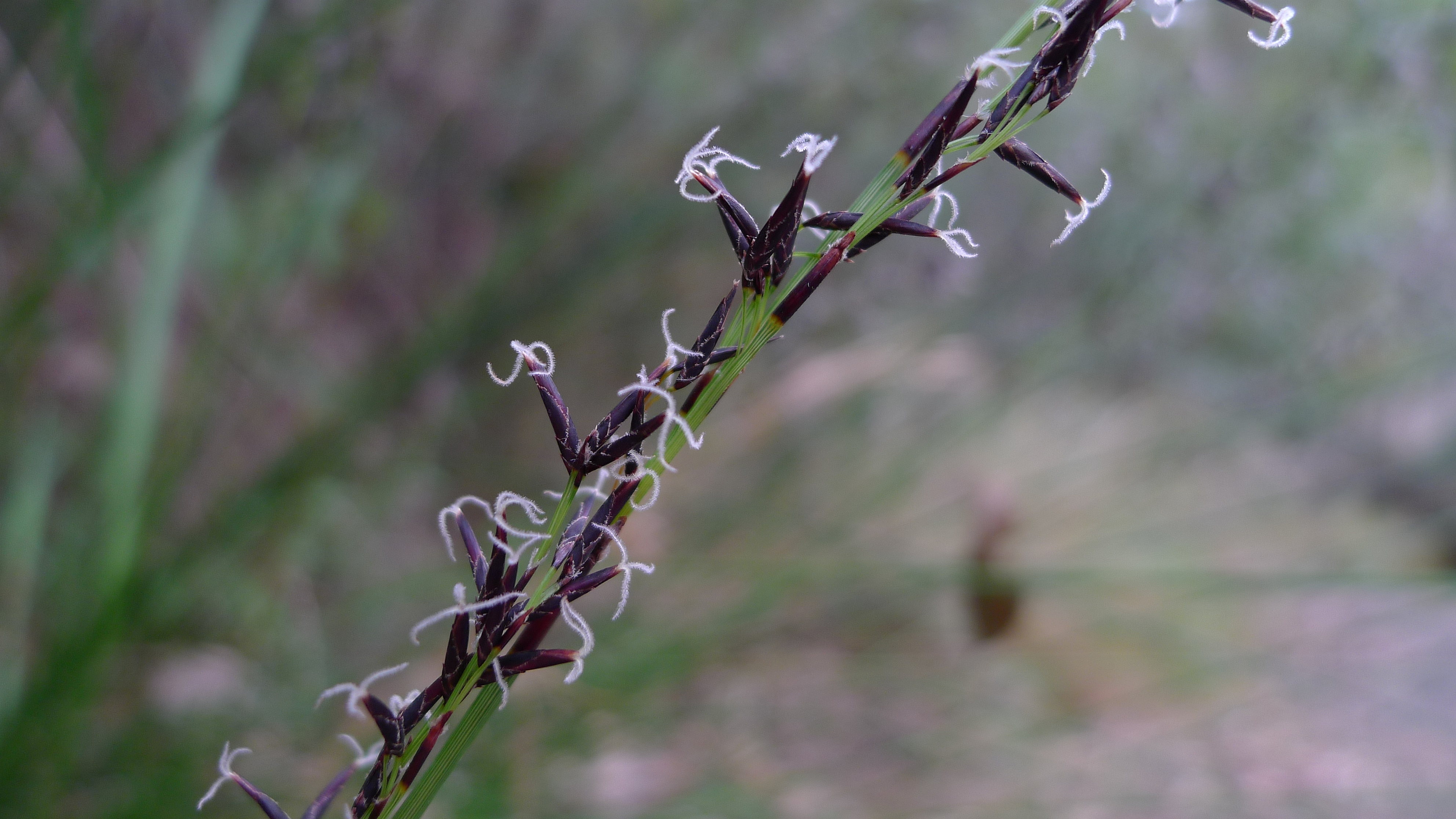 Black Bog-rush, Schoenus melanostachys, inflorescence. Spikelets are about 7 mm long. Heathcote National Park, NSW Australia, August 2013.